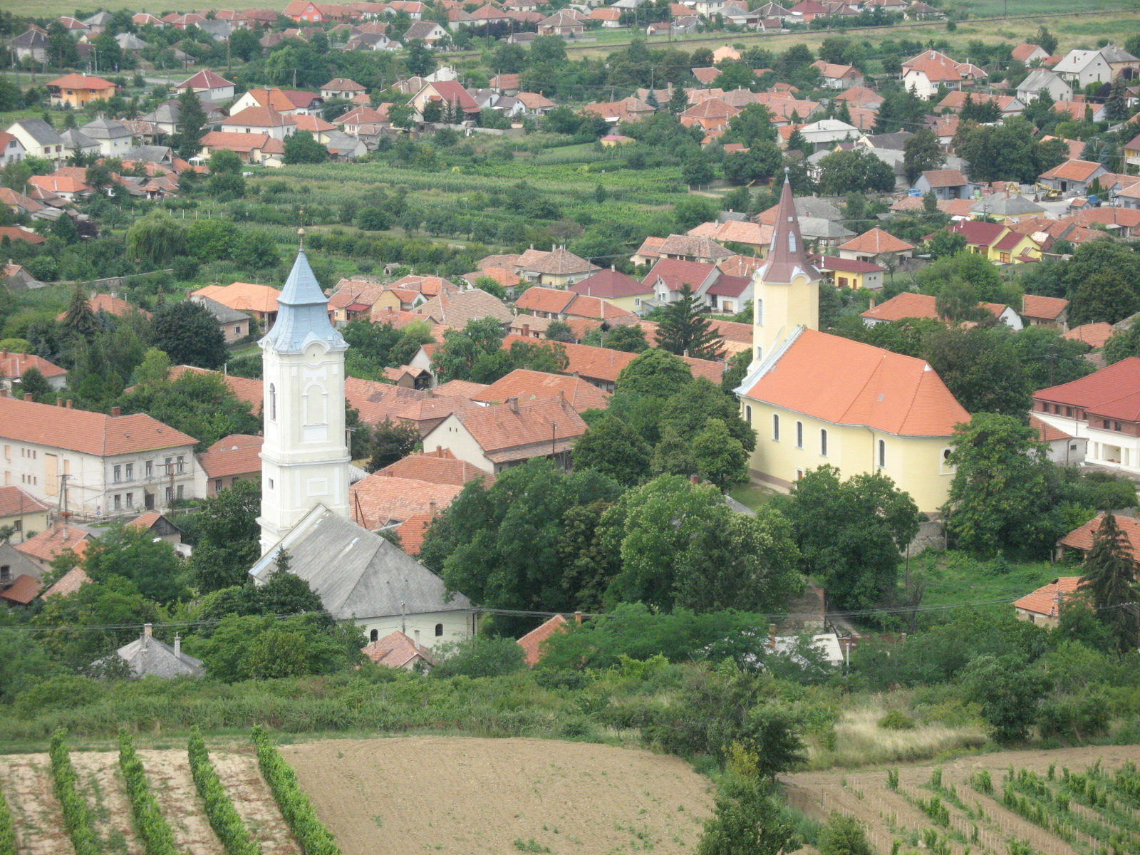 The center of Tarcal seen from the Tokaj mountain